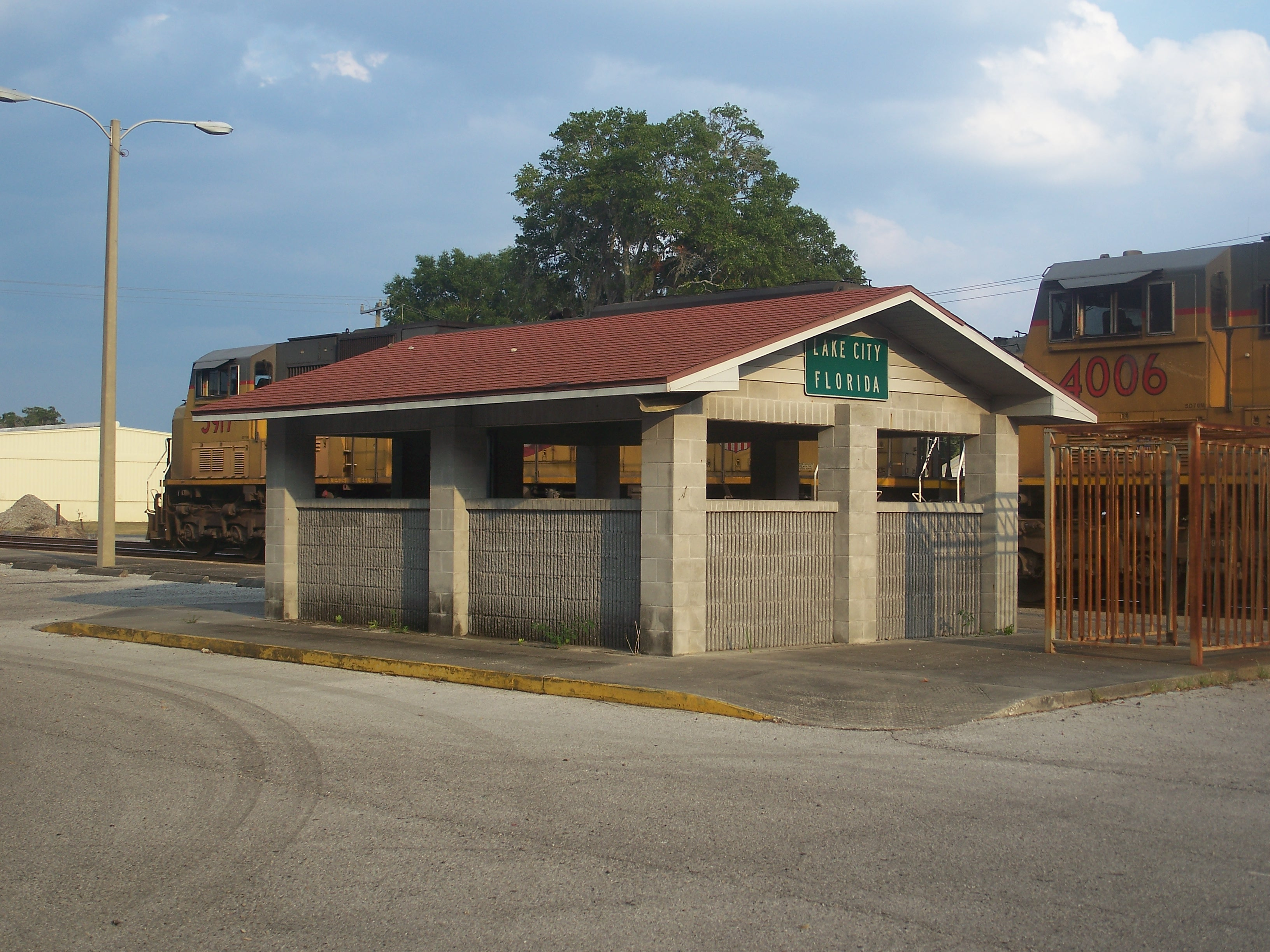 Lake City, Florida: Amtrak station, such as it is